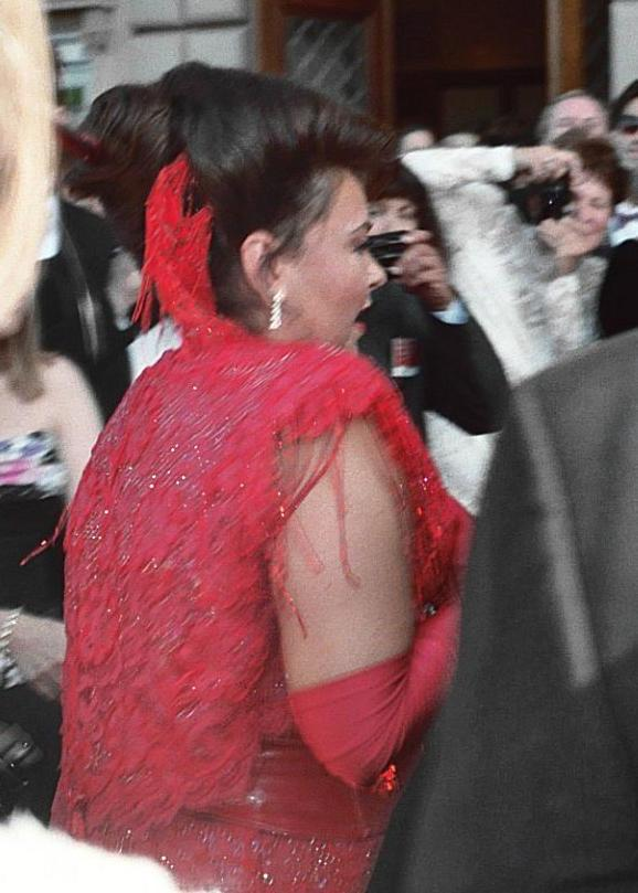 Roseanne Barr at the 1992 Emmy Awards This is a cropped version of the original.